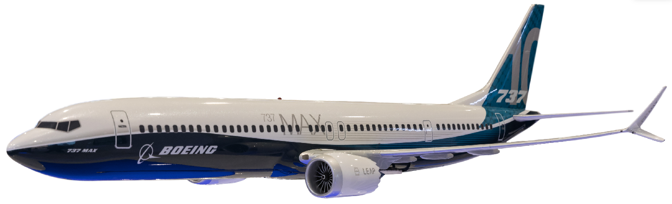 Boeing 737 MAX 10 model at ILA 2018